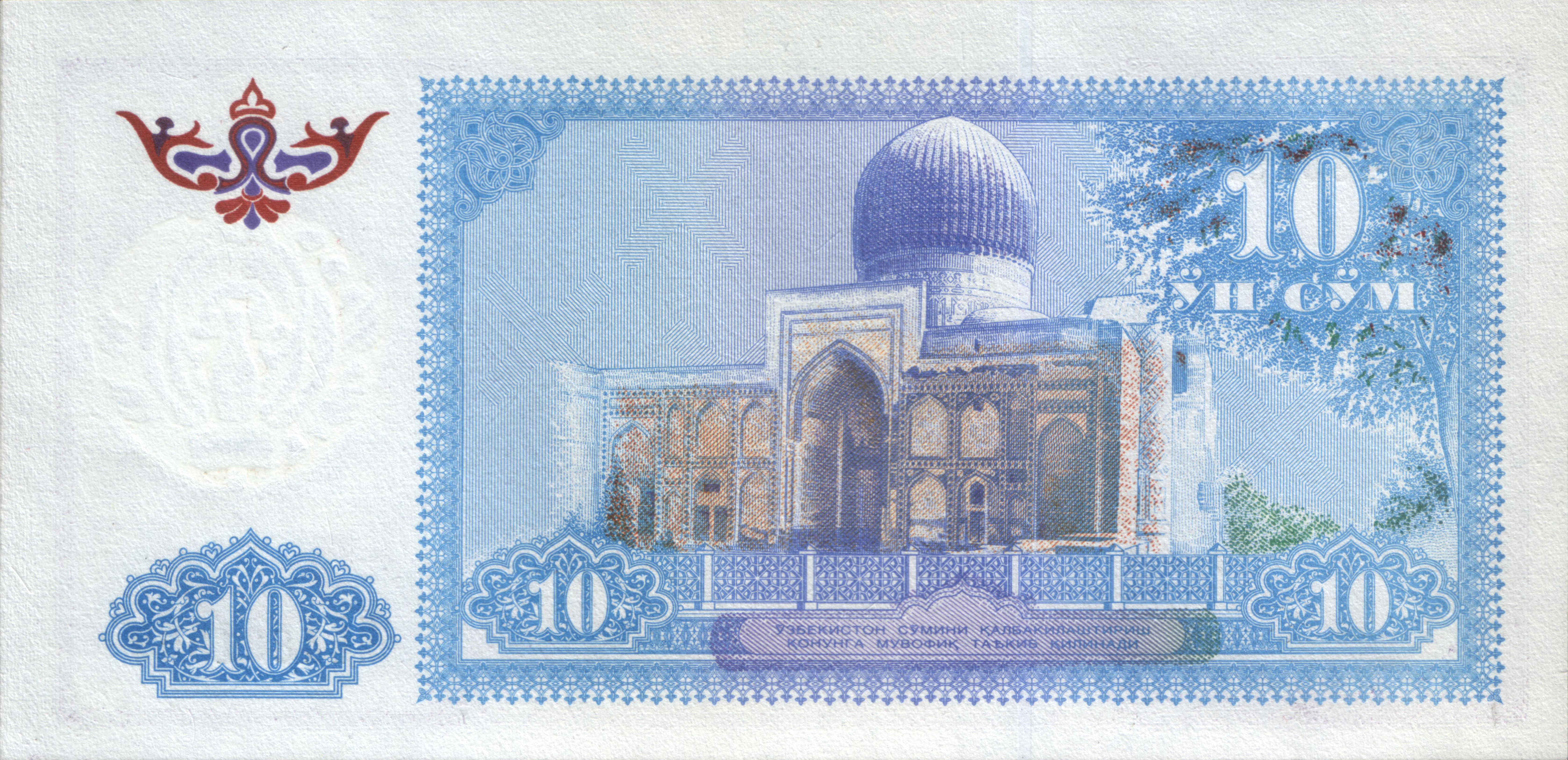 10 soms of Uzbekistan (1994)